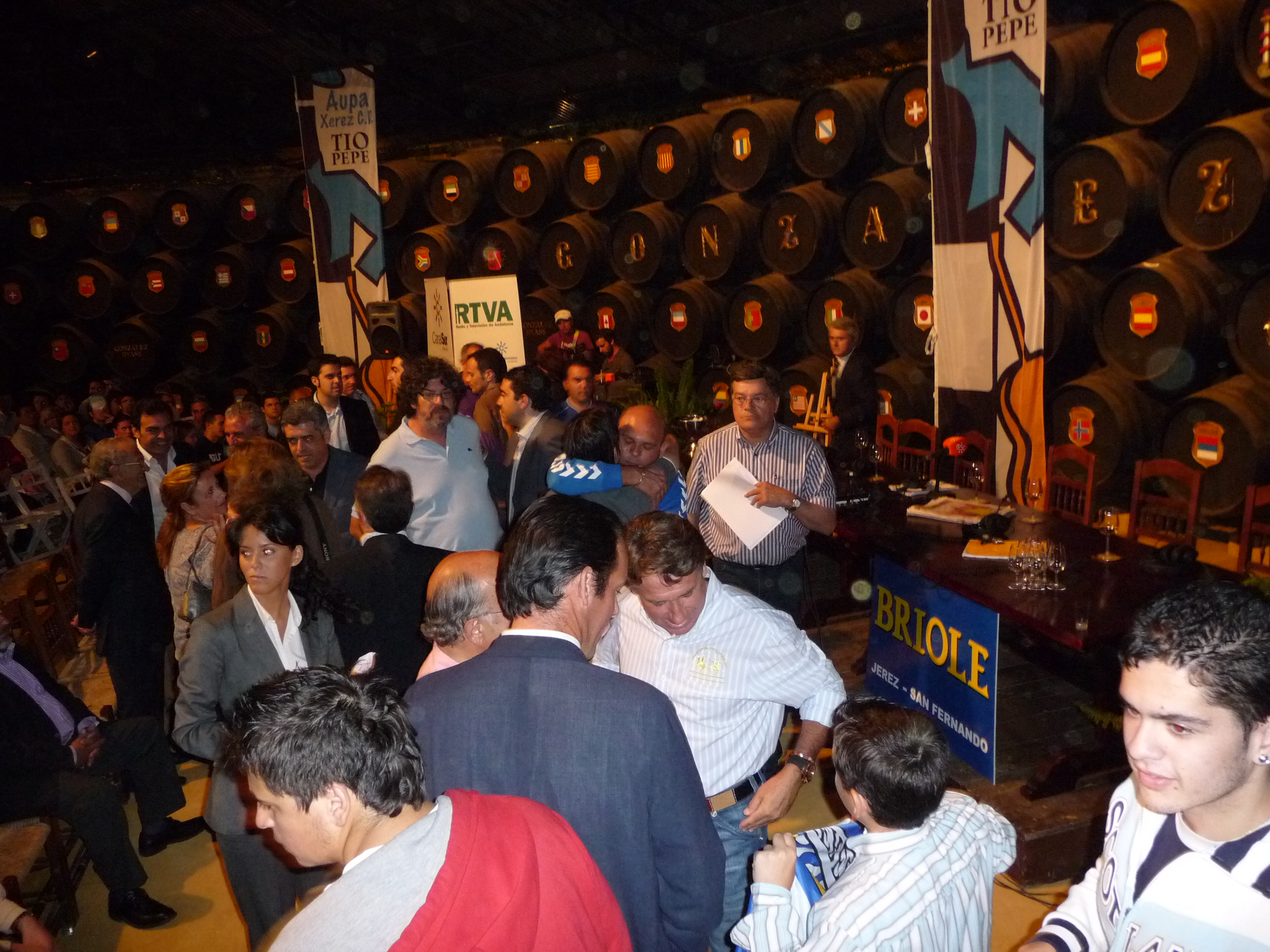 El Pelotazo radio program to celebrate Xerez CD football club get into "La Liga". Jerez de la Frontera (Andalusia, Spain)